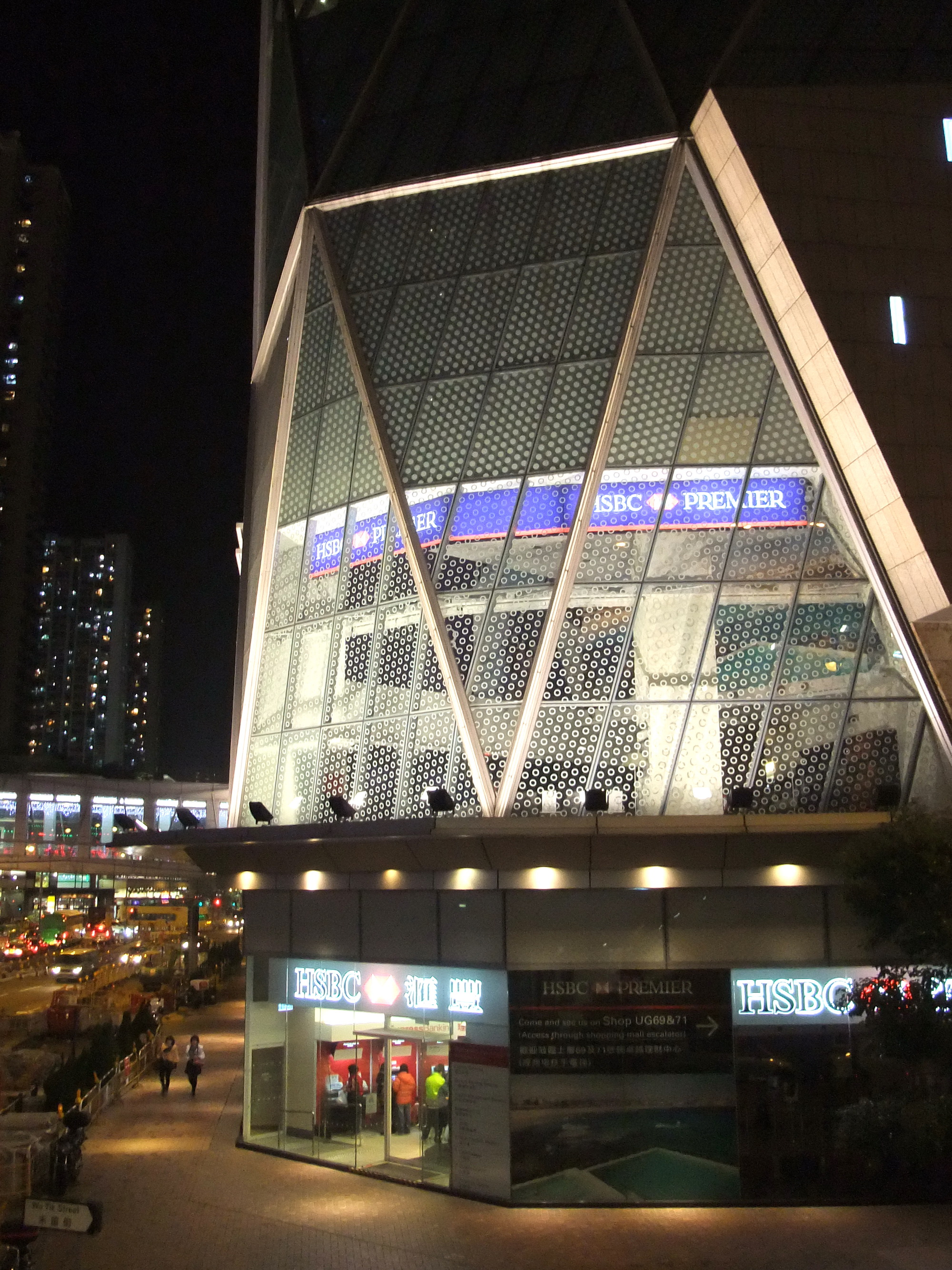 The Hongkong and Shanghai Banking Corporation (HSBC) Premier Centre at the Citywalk in Tsuen Wan, Hong Kong.